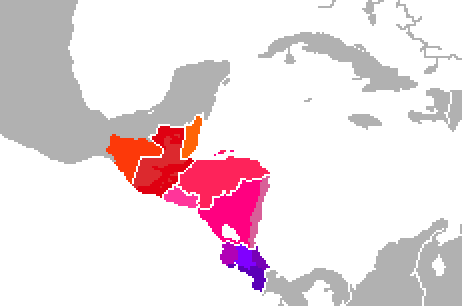 Central American Spanish has dialects divided in Countries (except Costa Rica and Nicaragua that is spited). Fraylescano (placed in Chiapas, Mexico) Guatemalan Spanish Belizean Spanish Salvadoran Spanish Honduran Spanish Nicaraguan